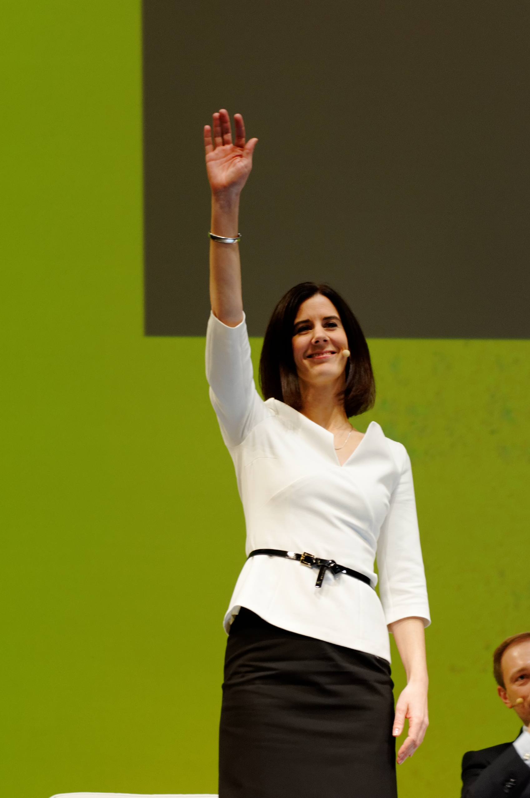 Series: Liberals' Epiphany rally hosted by the FDP Baden-Württemberg in the opera house of Stuttgart on January 6, 2015